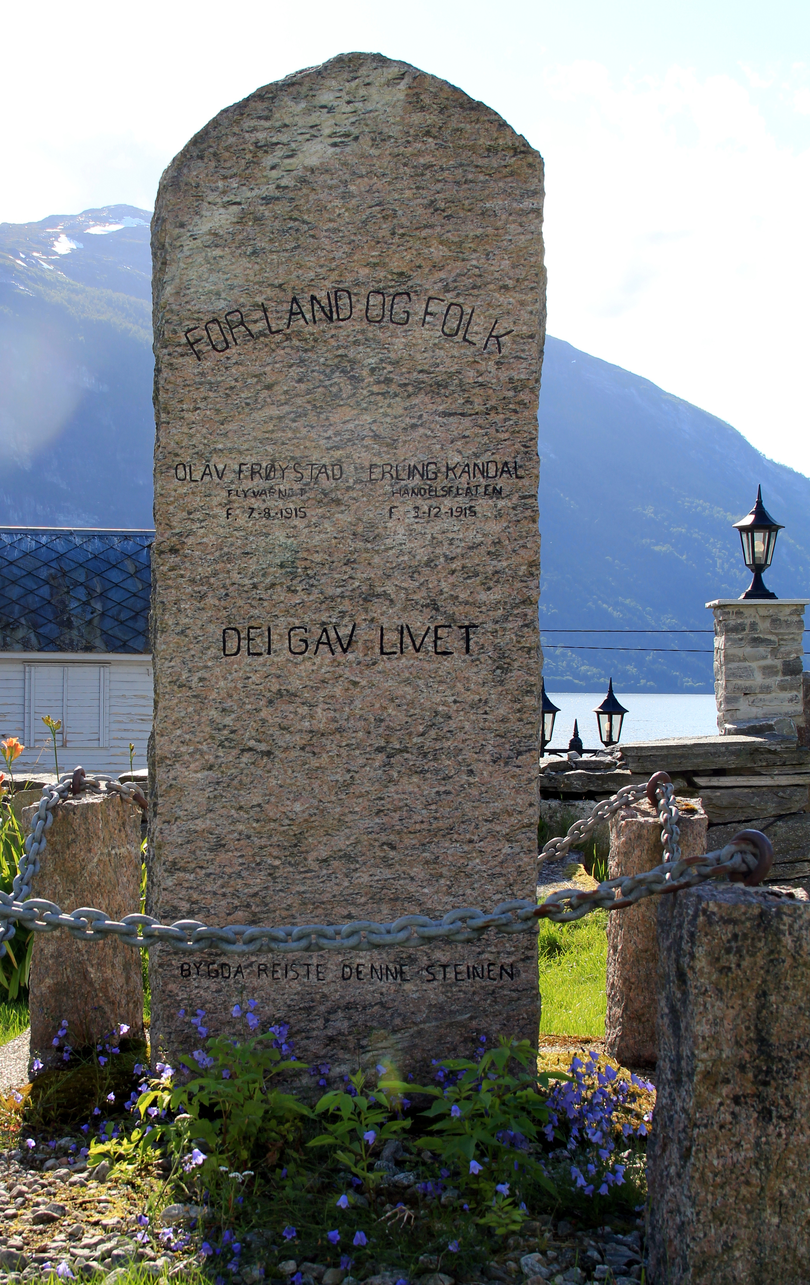 Memorial monument of fallen in ww2, Breim